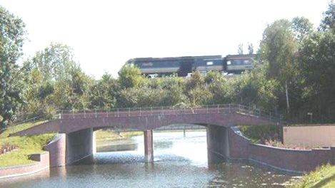 Author: John Bloomfield